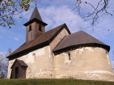 r.k.Church from 13th century in Kšinná